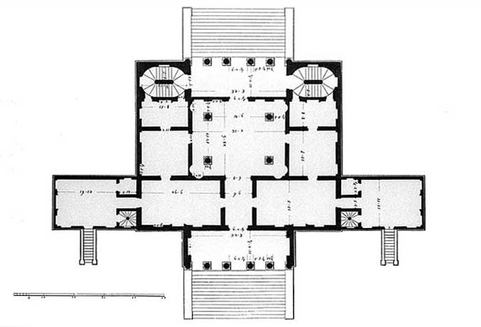 Villa Cornaro in Piombino Dese, province of Padua, designed by Andrea Palladio in 1552. Drawing from Ottavio Bertotti Scamozzi, 1781.